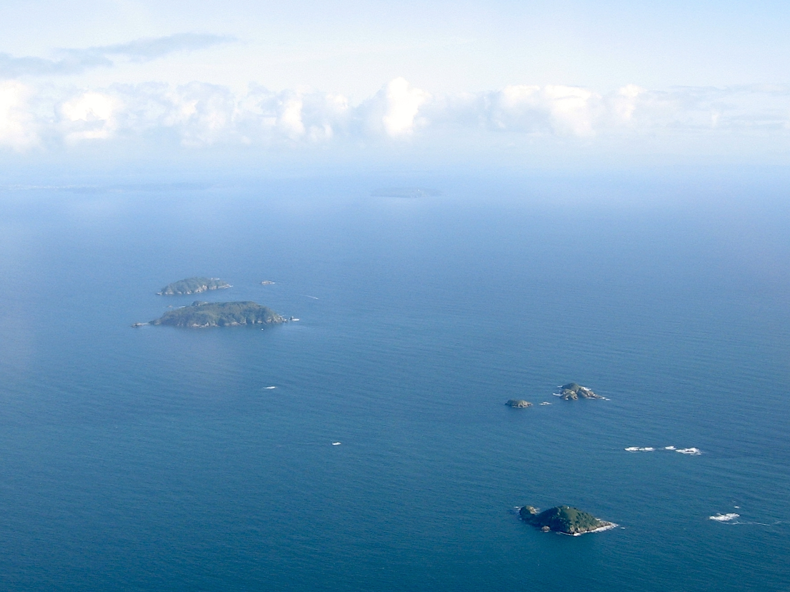 The Noises island group: Motuhoropapa Island (top left), Otata Island (top left, slightly lower) and Maria Island (lower right) in the Hauraki Gulf, New Zealand. Looking northeastwards.